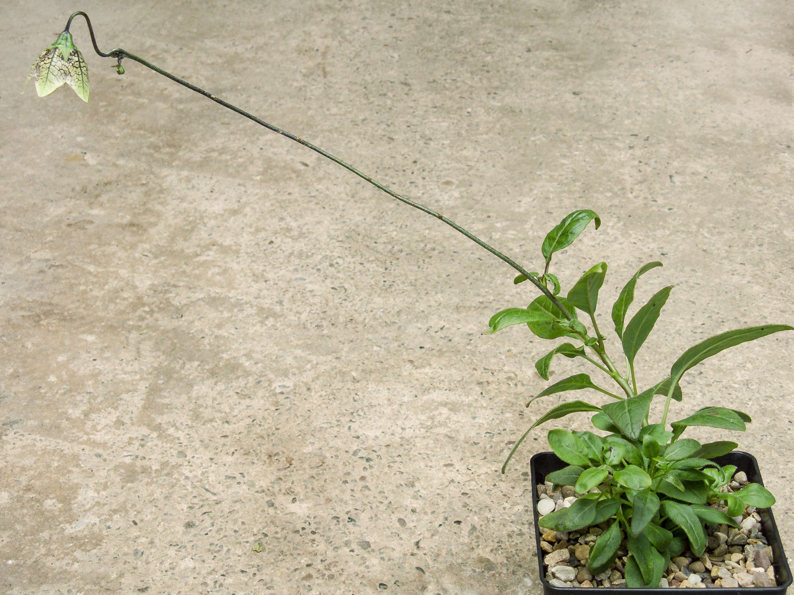 Small plant of Codonopsis subscaposa in cultivation